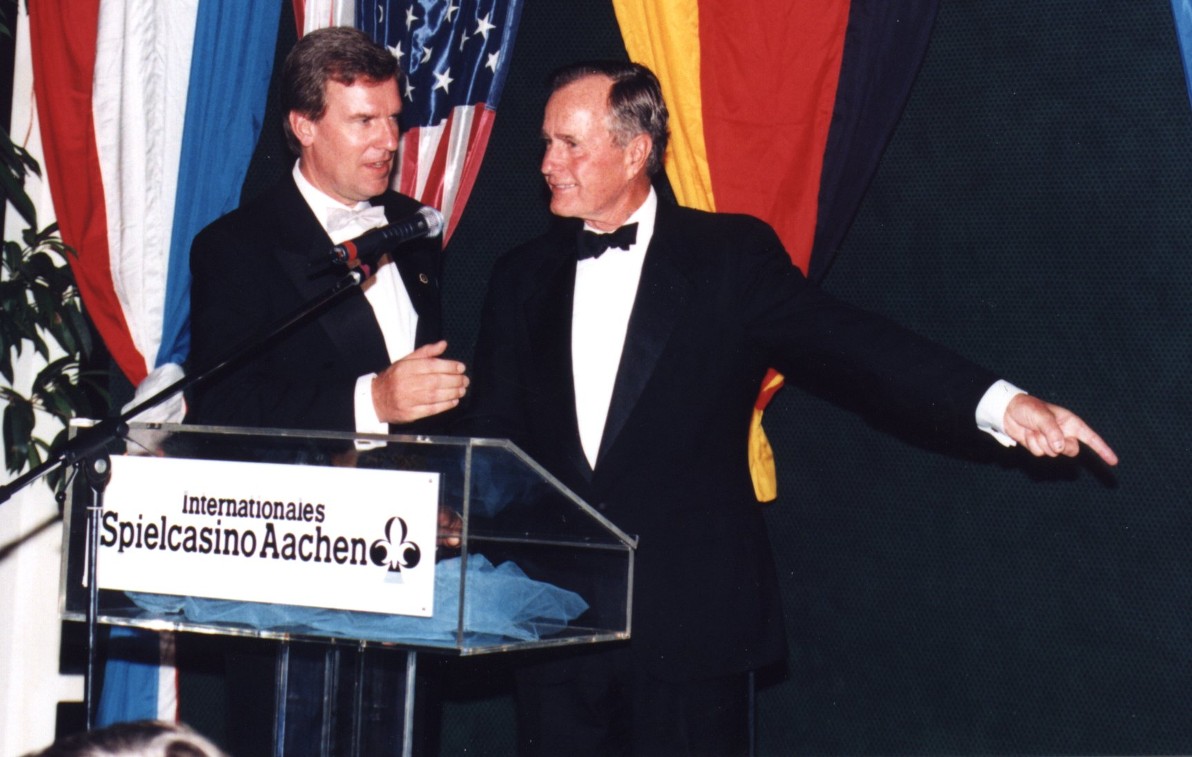 Ulrich Daldrup welcomes President George Bush to Aachen (1995)